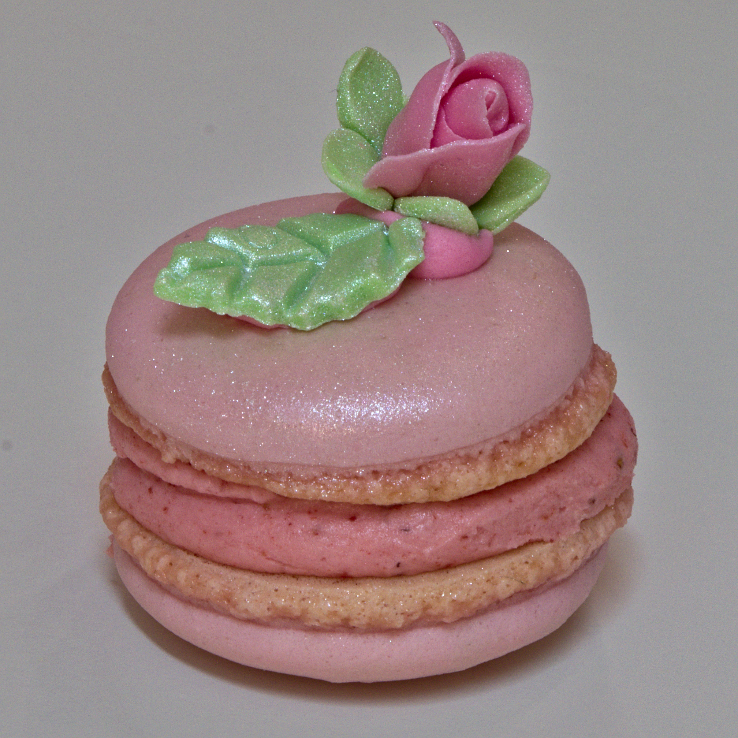 A macaron with decoration.